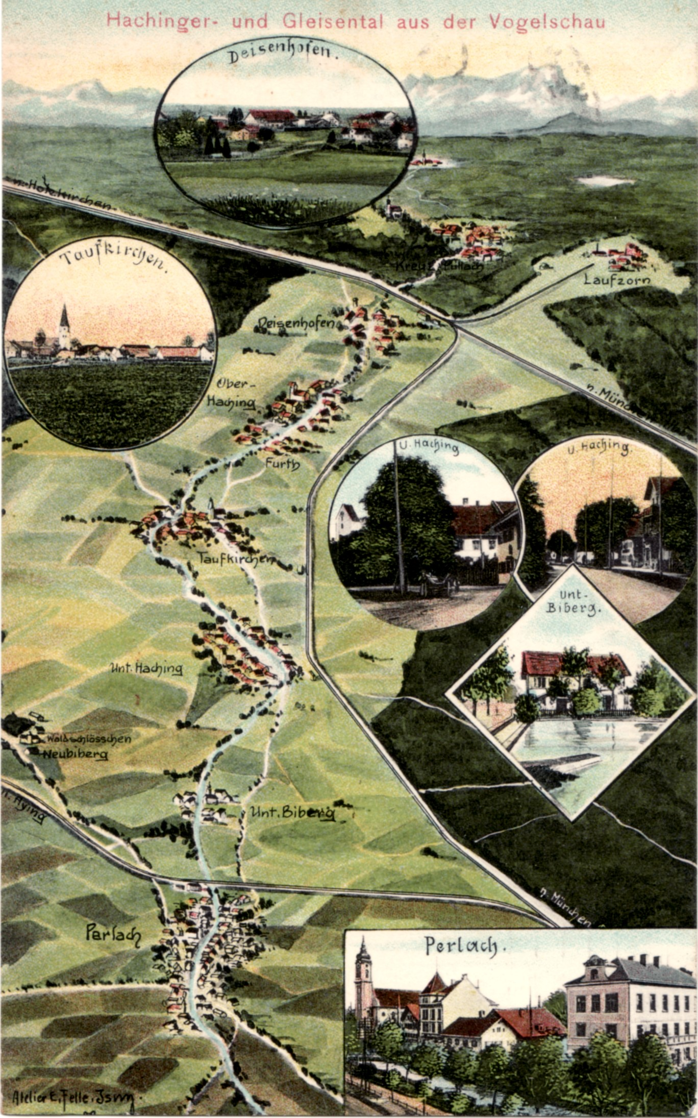 Hachinger- and Gleisental near Munich